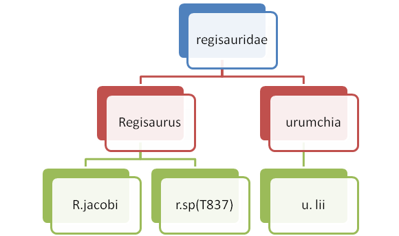 The classification of regisaurids(therocephalia,eutherocephalia,baurioidea)modified from Huttenlocker, A. K. (2014). "Body Size Reductions in Nonmammalian Eutheriodont Therapsids (Synapsida) during the End-Permian Mass Extinction". PLoS ONE 9 (2): e87553.